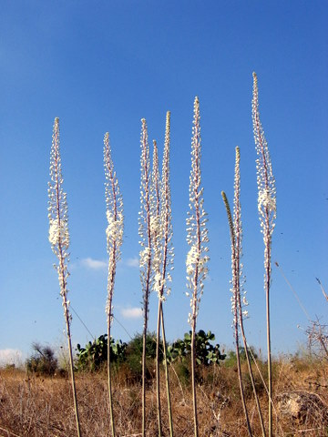 sea onion, sea squill